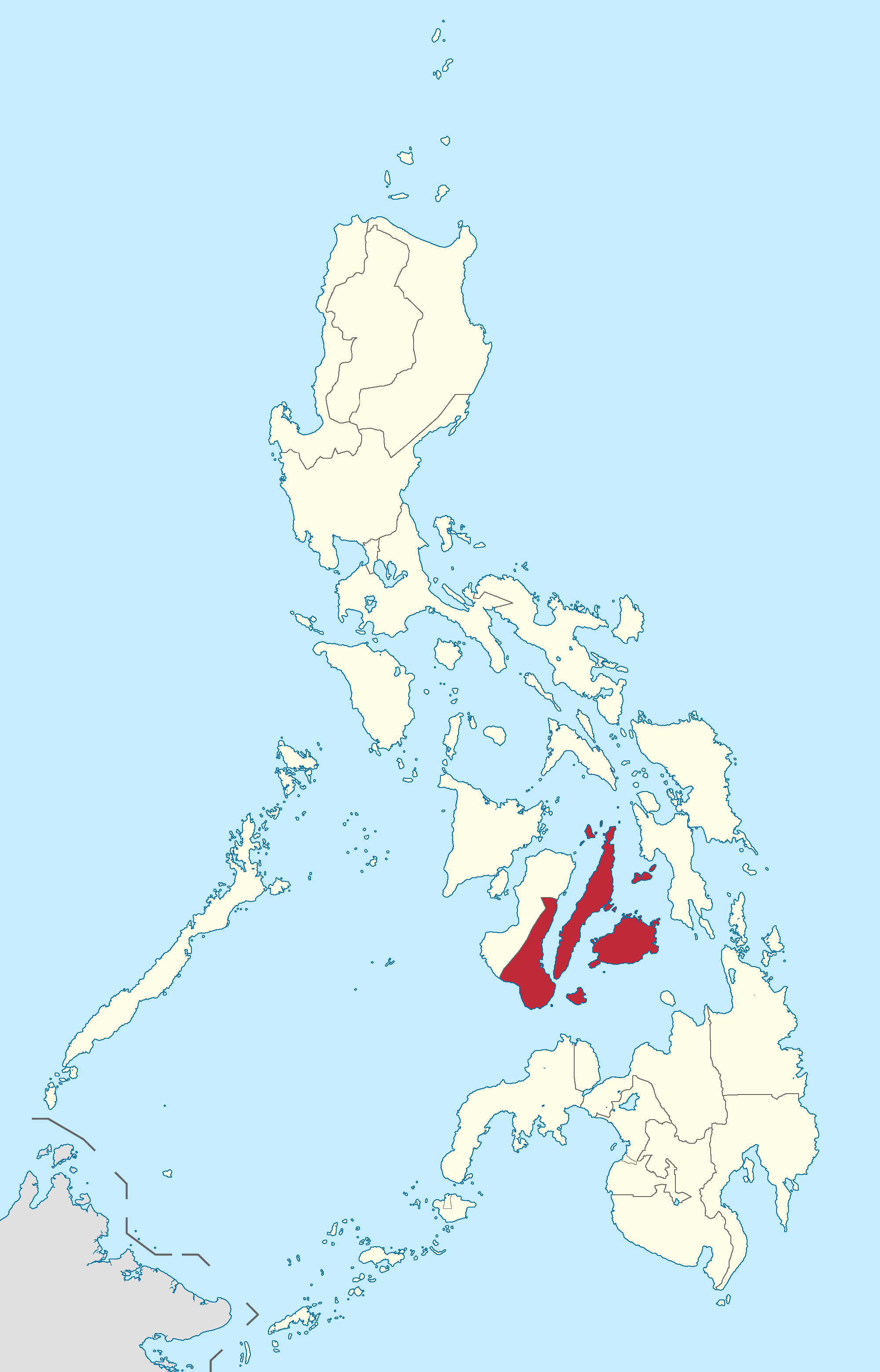 Location of Central Visayas region in the Philippines. Filipino: Kinaroroonan ng rehiyon ng Gitnang Visayas sa Pilipinas.